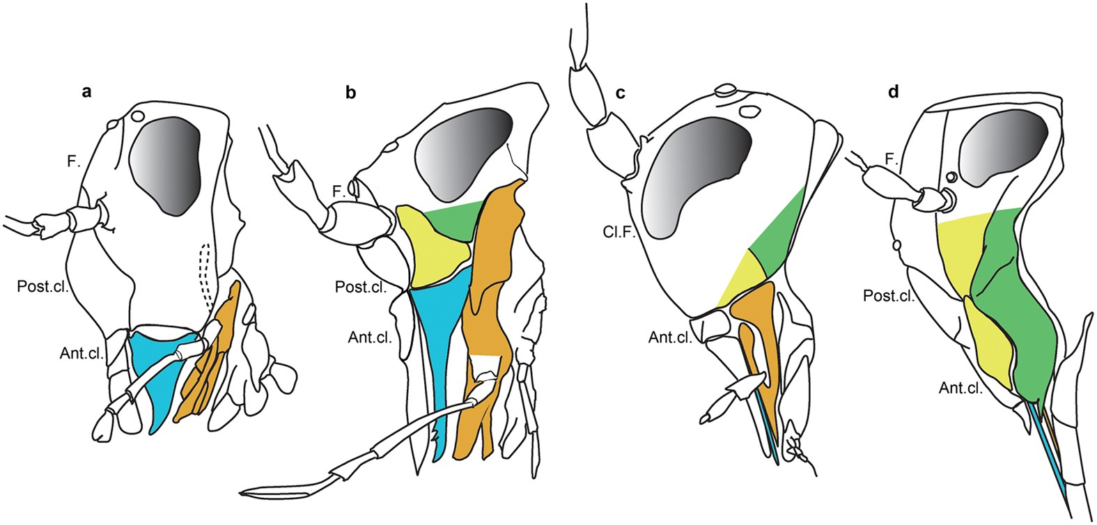 Figure 4: Hypothesis of head and mouthpart morphologies in Acercaria (drawn by TB and PN). (a) Psocodean groundpattern (also present in Hypoperlidae). (b) Permopsocidan groundpattern. (c) Thripidan groundpattern, reconstructed after the head of an adult Tubulifera, and Moundthrips. (d) Hemipteran groundpattern. Mandible: blue; maxilla: brown; anterior part of gena (mandibular lobe): yellow; posterior part of gena (maxillary lobe?): green. Ant.cl. anteclypeus; Cl.F. clypeo-frons; F. frons; Post.cl. postclypeus.